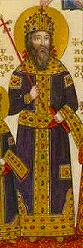 Manuel II Palaiologos